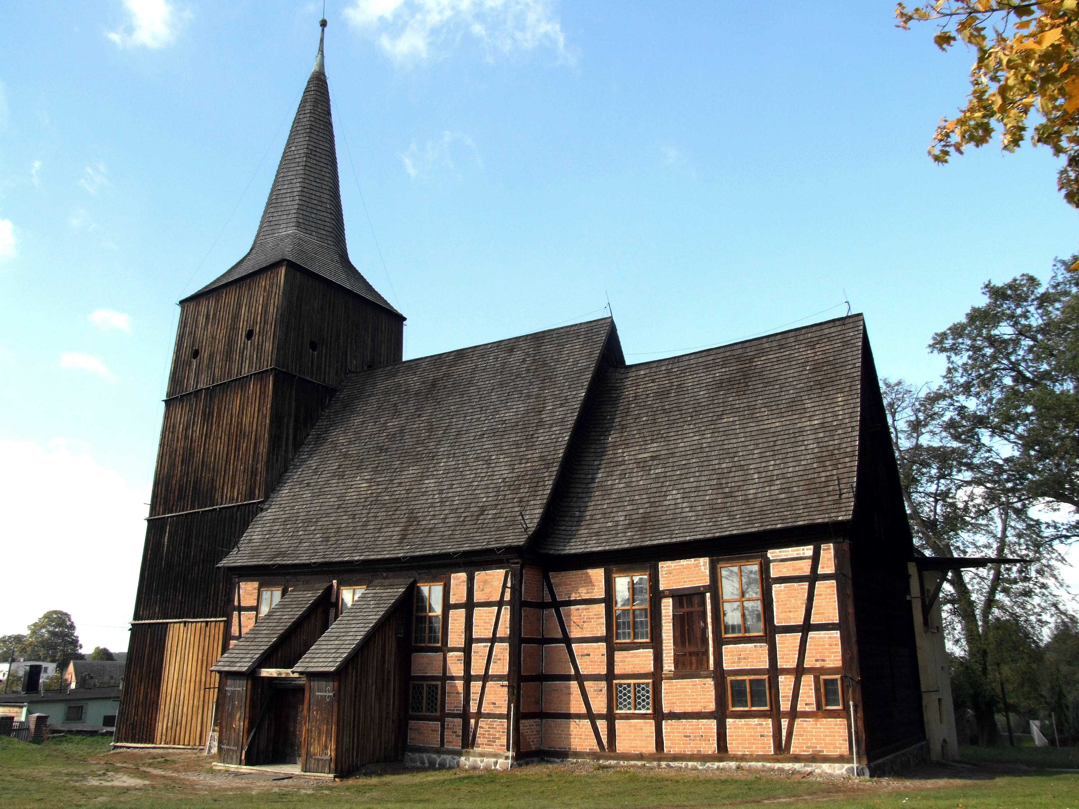 The 17th century church in Klępsk, Poland Author: Mohylek 12:28, 24 October 2006 (UTC)